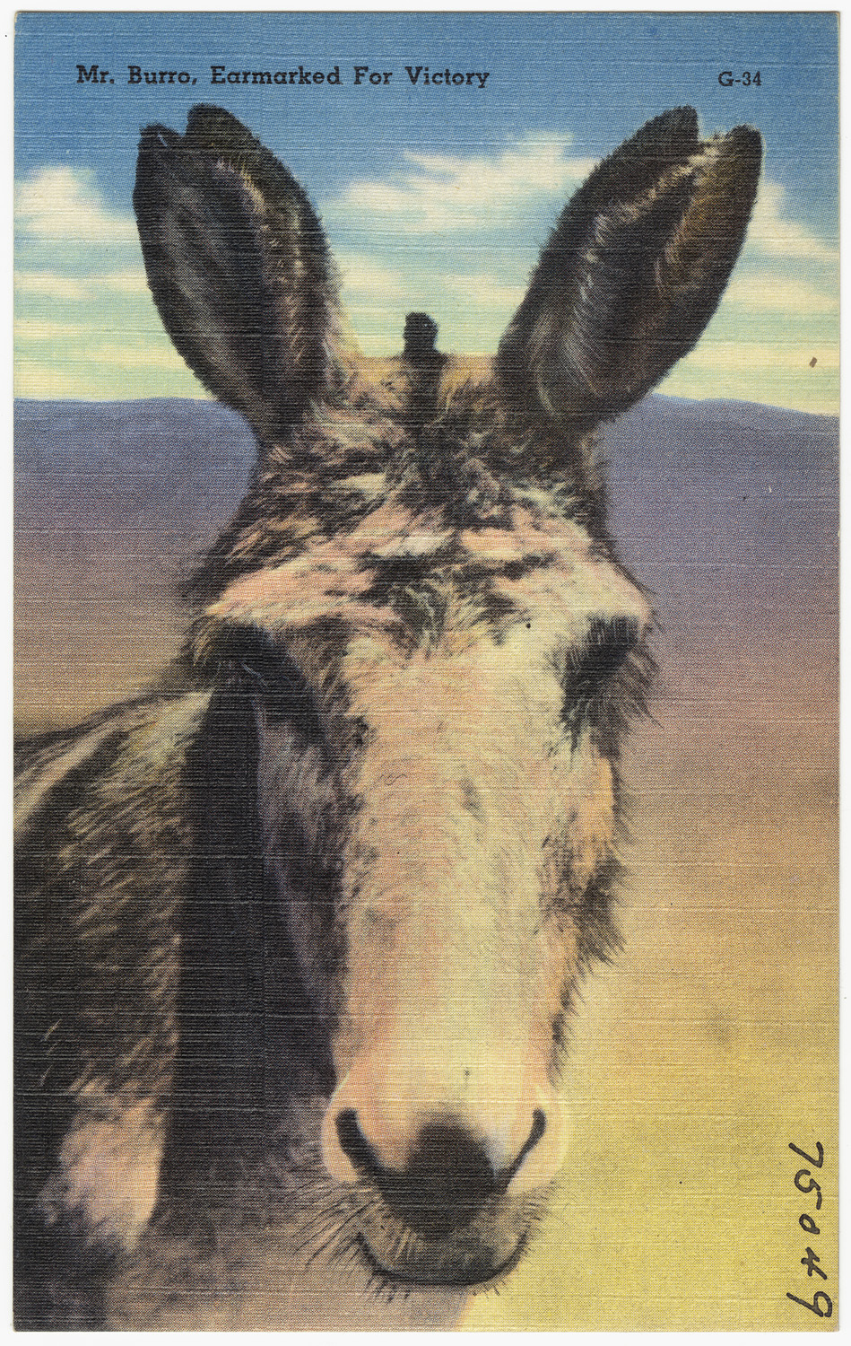 File name: 06_10_015542 Title: Mr. Burro, earmarked for victory Created/Published: Pub. by Southwest Arts & Crafts, Santa Fe, New Mexico; Tichnor Bros. Inc., Boston, Mass. Date issued: 1930 - 1945 (approximate) Physical description: 1 print (postcard) : linen texture, color ; 5 1/2 x 3 1/2 in. Genre: Postcards Notes: Collection: The Tichnor Brothers Collection Location: Boston Public Library, Print Department Rights: No known restrictions Flickr data on 2011-08-17: Camera: Epson Exp10000XL10000 Tags: postcard, tichnor brothers, New Mexico License: CC BY 2.0 User: Boston Public Library